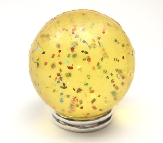 A 26.5mm glittery Super Ball, yellowed with age and resting on a base.